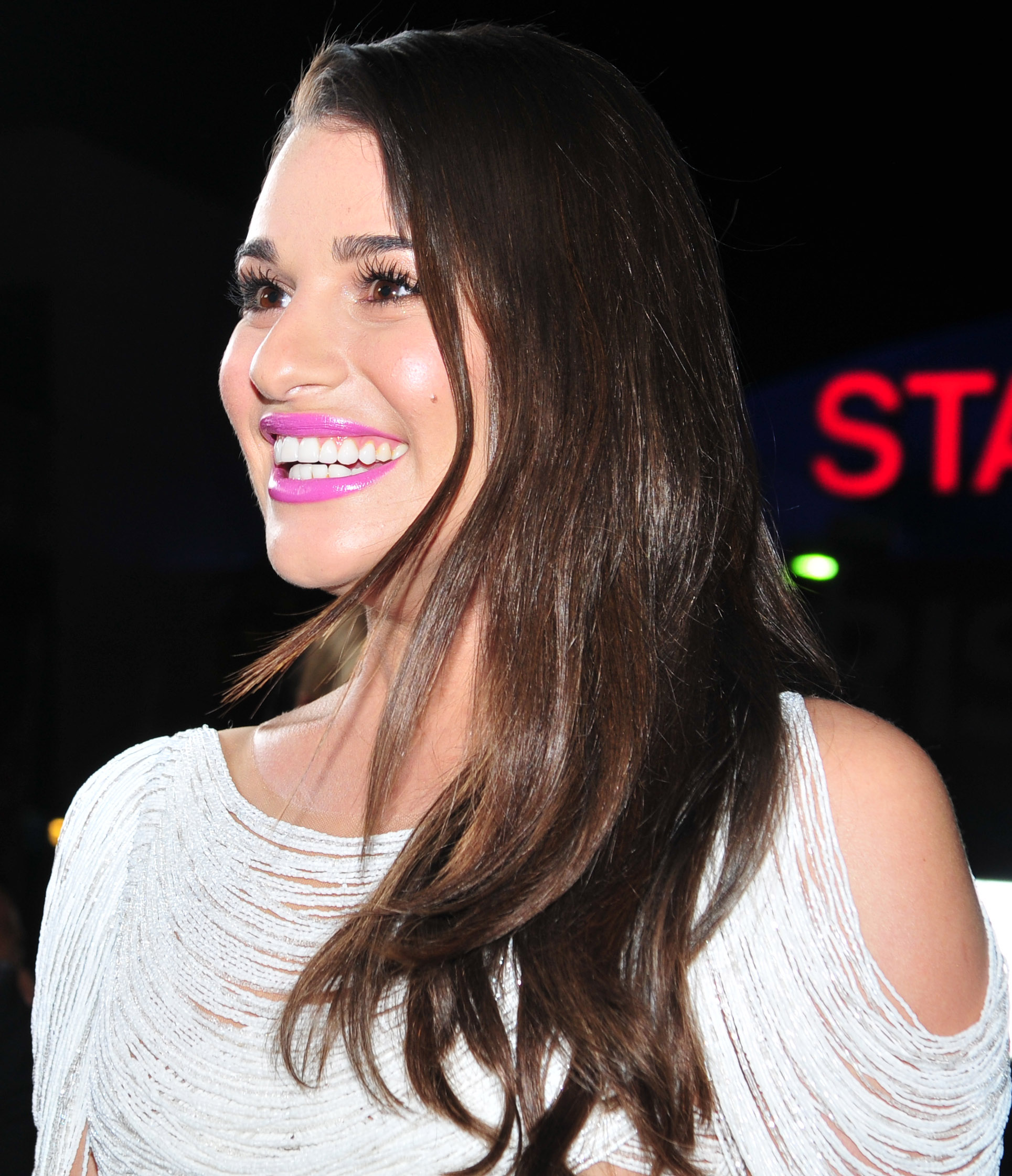 Lea Michele on the red carpet at the 38th People's Choice Awards on January 11, 2012, at the Nokia Theatre in Los Angeles, California. (JJ Duncan/ )